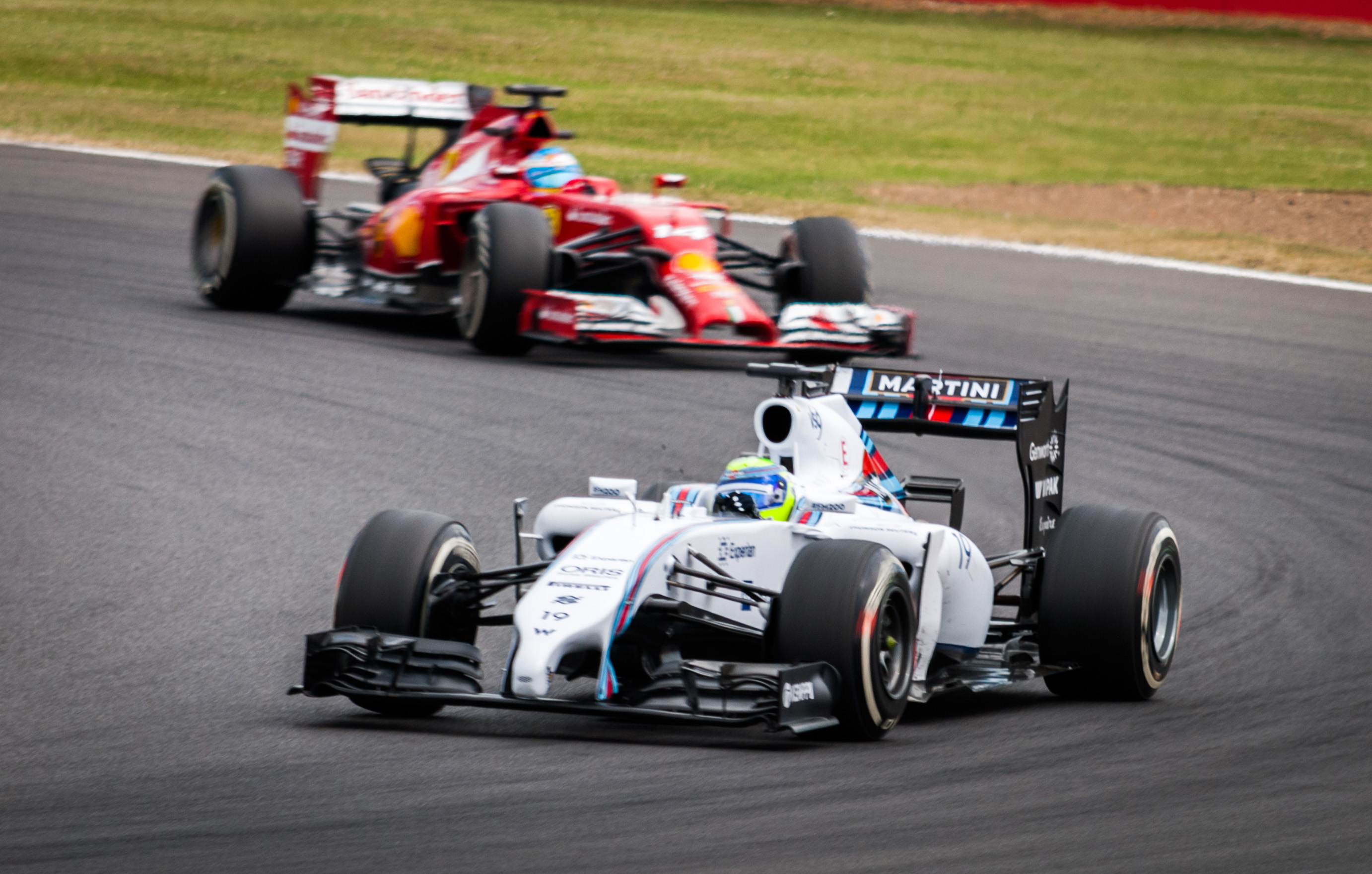 Felipe Massa and Fernando Alonso during Free Practice Two. 2014 British Grand Prix at Silverstone.